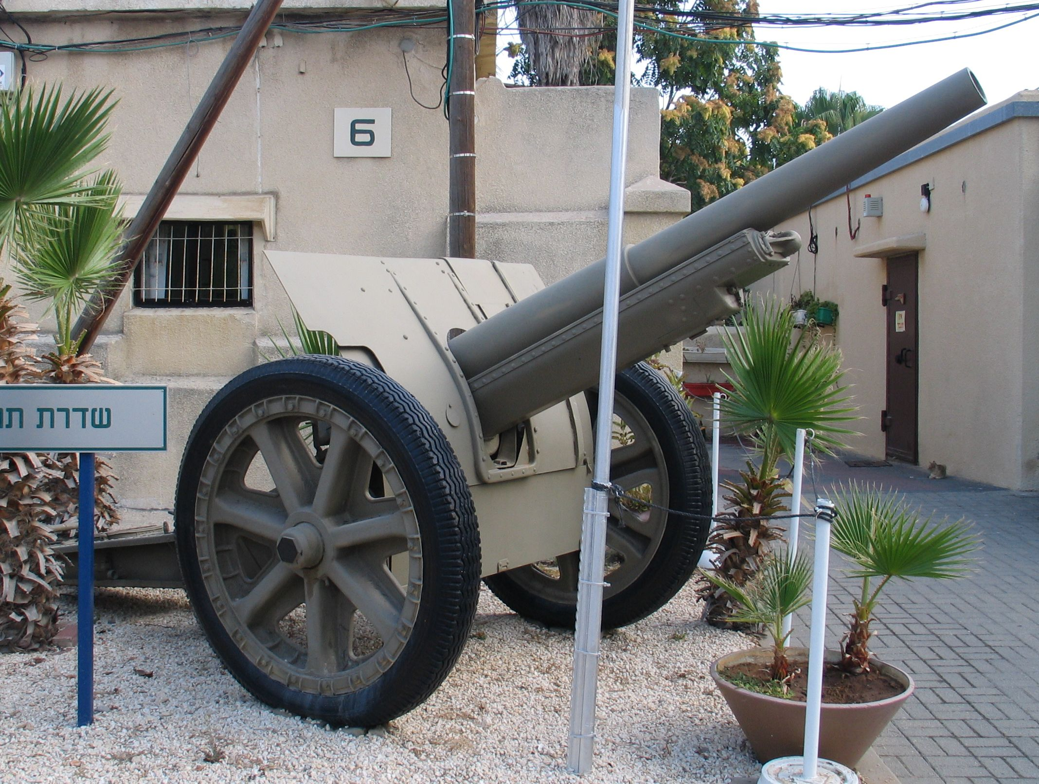 Canon de 105 modele 1913 Schneider with retrofitted wheels in Batey ha-Osef Museum, Tel Aviv, Israel.